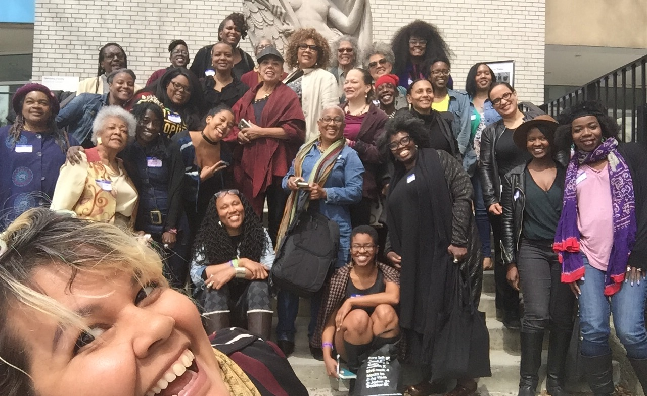 Black Lunch Table: We Wanted A Revolution Roundtable. Women visual artists of the African Diaspora meet at the Brooklyn Museum to discuss their work and the world in honor of the exhibition, We Wanted a Revolution: Black Radical Women, 1965–85. not in order: Coreen Simpson, Chanel, Thervil, Marilyn Nance, Vivian Crockett, Nicole Charles, Alva Rogers, Kathe Sandler, Michelle Archange, Aisha Cousins, Shalewa Mackall, Jasmine Sykes-Kunk, Nontsikelelo Mutiti, Ming Smith, Dindga McCannon, Aisha Tandiwe Bell, Lehna Huie, Noelle Flores Theard, Maren Hassinger, Roxanna Allen, IfeMichelle Gardin, Jae Jarrell, Julie Dash, Sia Mensah, Margaret Rose Vendryes, Janet Olivia Henry, Clarivel Ruiz, Kecia Jefferson, Sana Musasama, Heather Hart